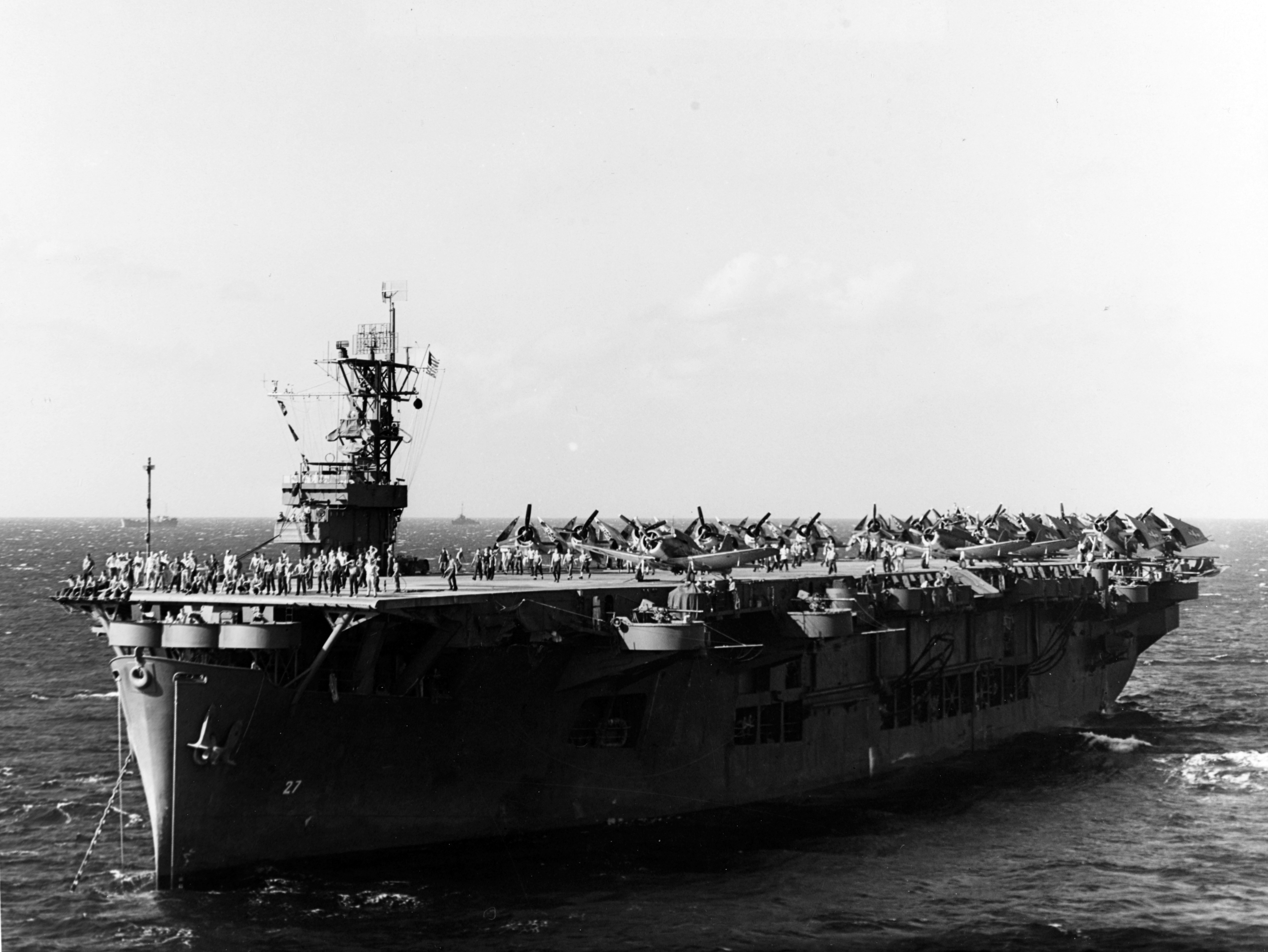 The U.S. Navy escort carrier USS Suwannee (CVE-27) at anchor in Kwajalein harbour, Marshall Islands, on 7 February 1944 with Grumman F6F Hellcat fighters, Douglas SBD Dauntless dive bombers, and Grumman TBM Avenger torpedo bombers on her flight deck. The photo was taken from the heavy cruiser USS Baltimore (CA-68).